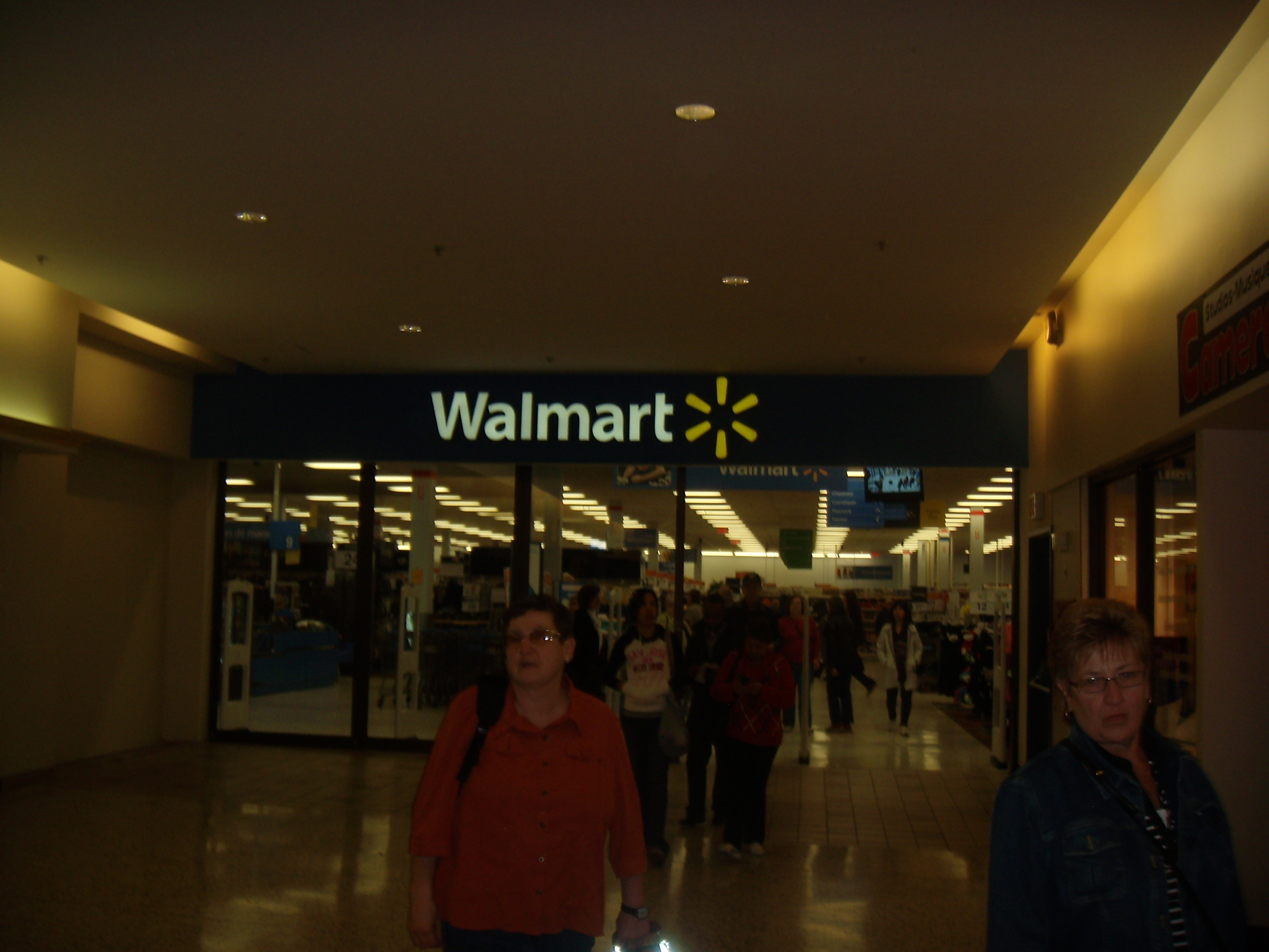 Entrance of Walmart (formerly Zellers from late 1970s-2012) thru mall of Centre Domaine photographed in Montreal, Quebec, Canada.